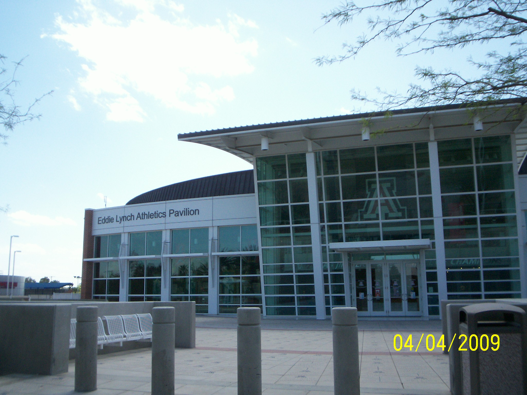 Front view of the Eddie Lynch Athletics Pavilion, McKale Center, University of Arizona, Tucson, Arizona. The Eddie Lynch Athletics Pavilion is a museum, open to the public, showcasing the history of intercollegiate athletics at the University of Arizona.